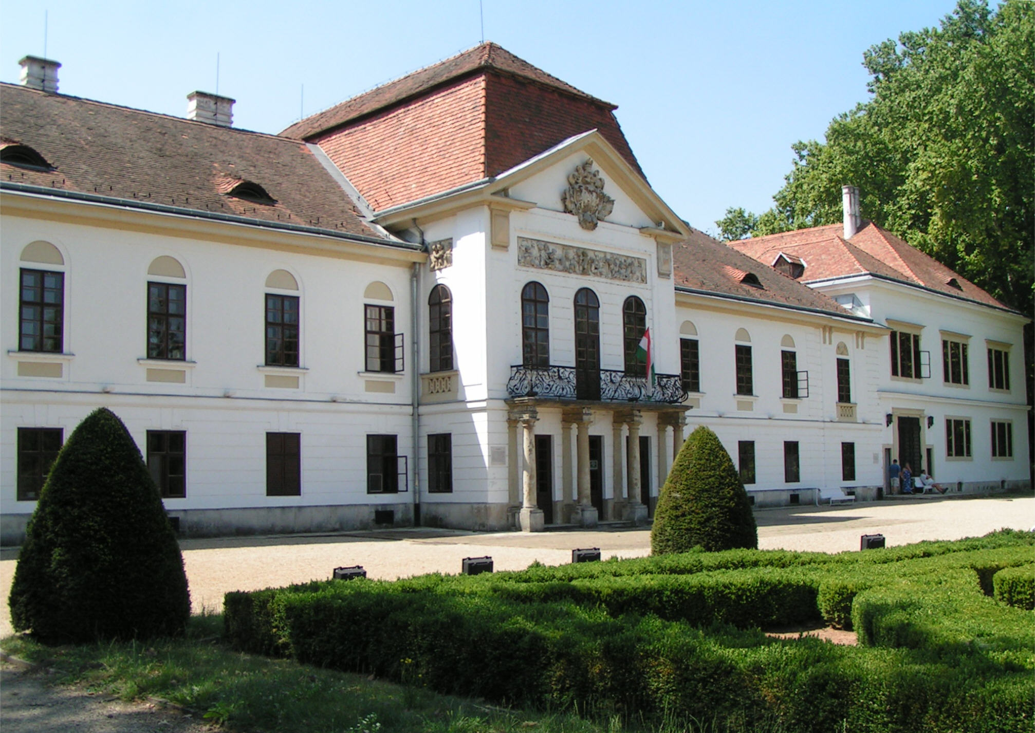 Széchényi Castle in Nagycenk